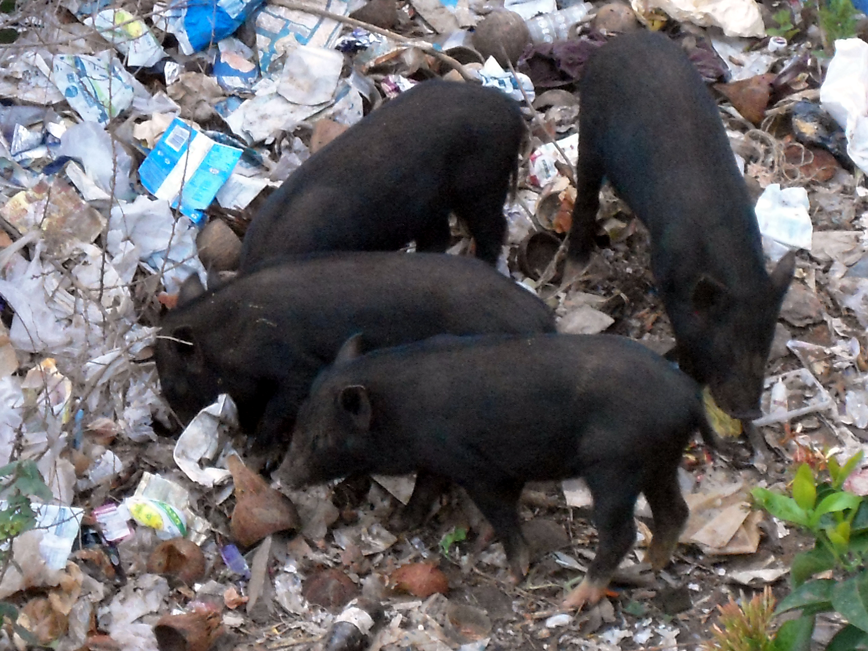 Sus scrofa domesticus (juvenile) piglets at a dump in Visakhapatnam, India